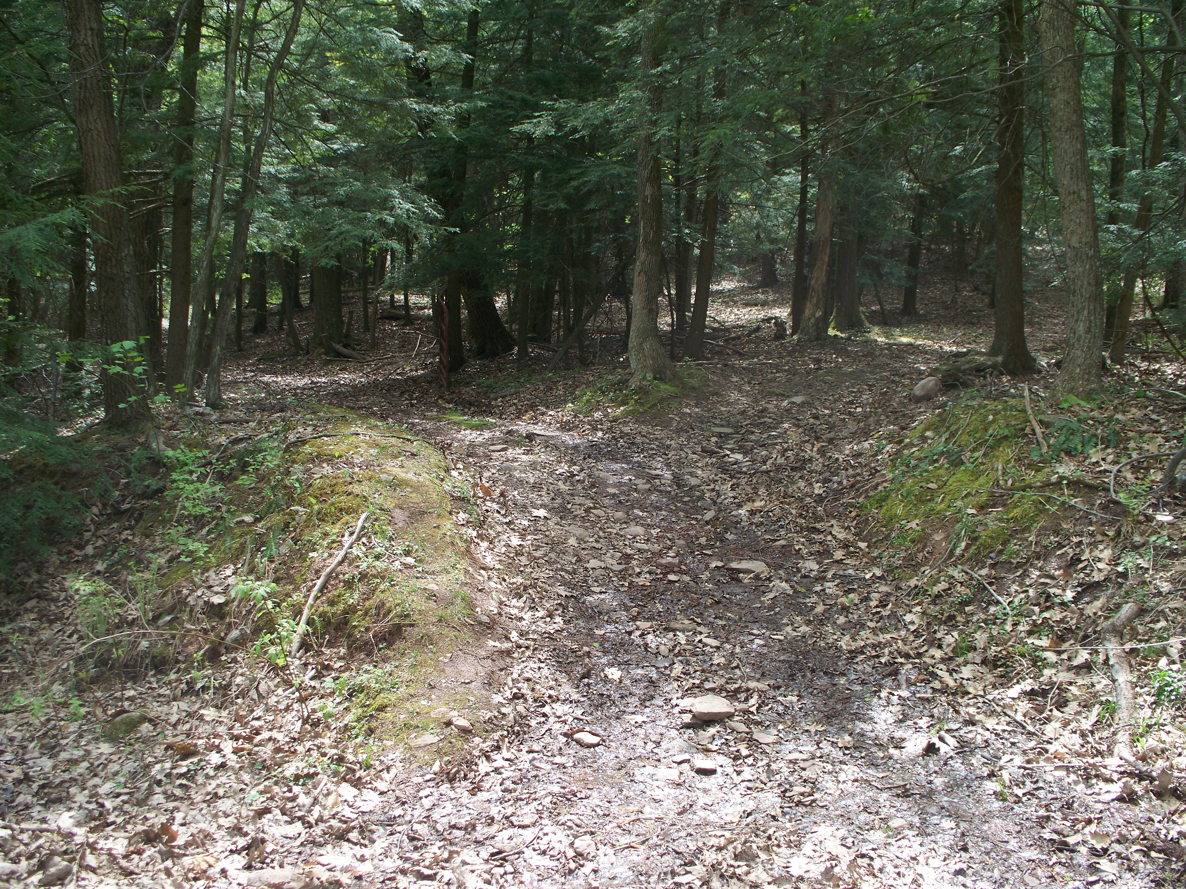 Trail head at the Ticklish Rock